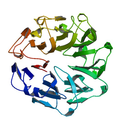 The third RLD domain of HERC2 in Homo sapiens